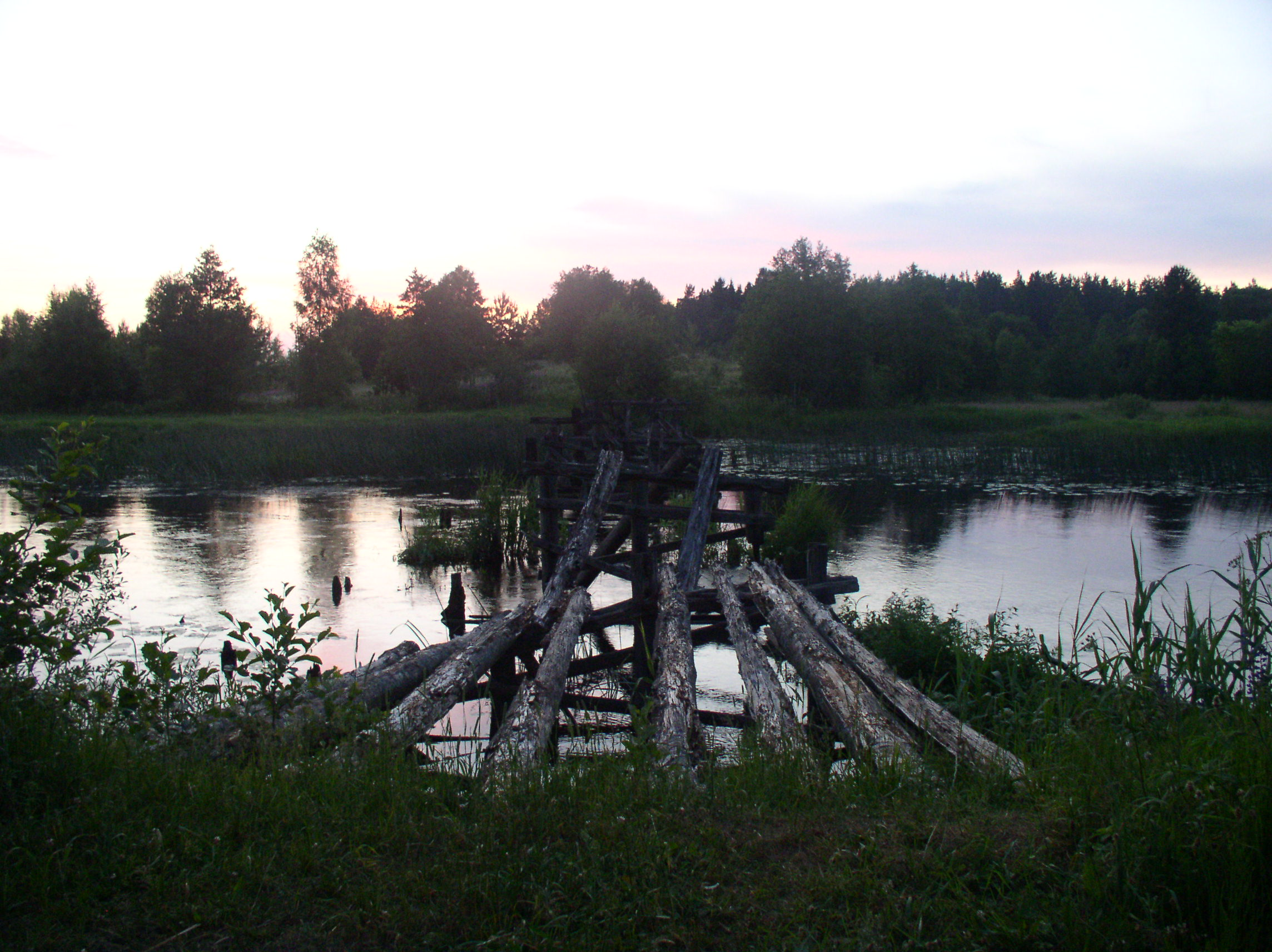 Bridge over Drysa River near Lake Buza, Belarus.